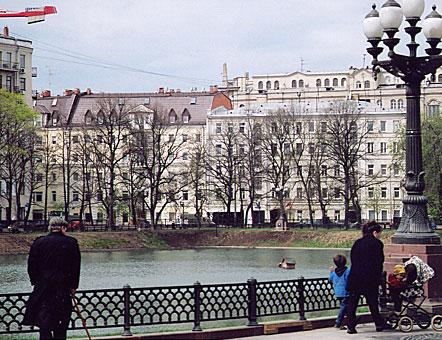 Houses in the Patriarshy Ponds, Moscow.